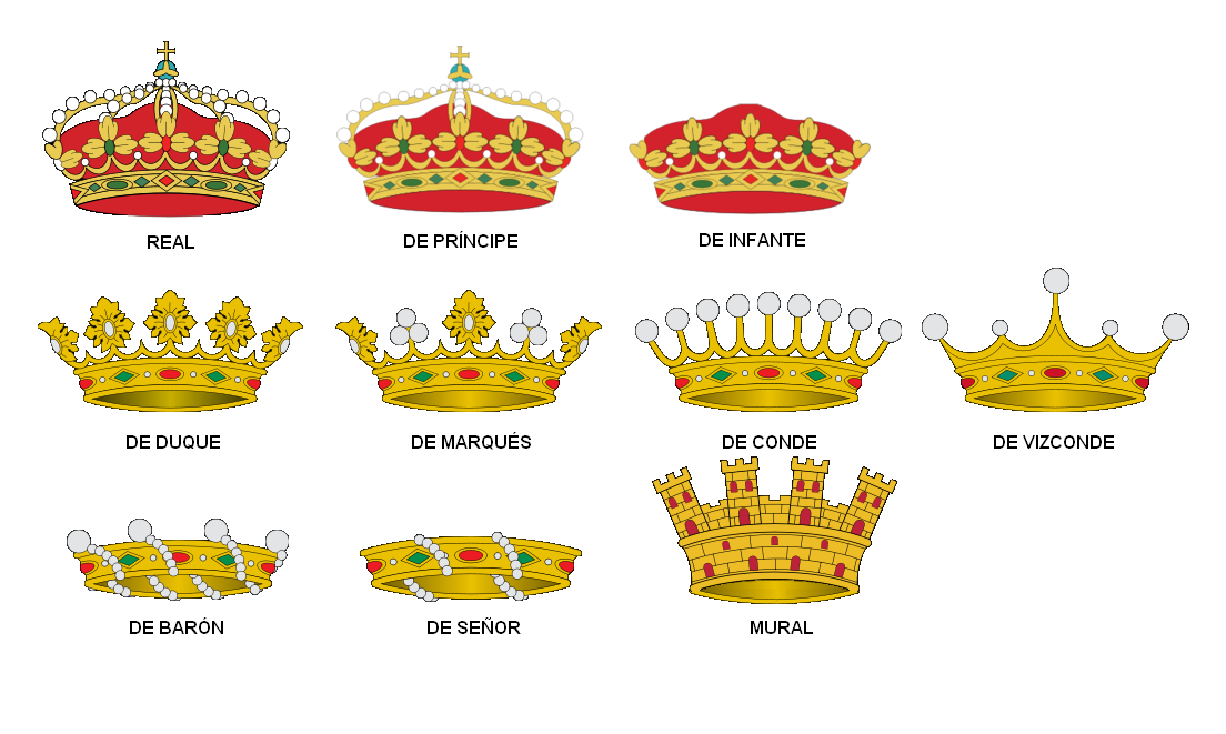 Crowns, Spanish Heraldry (In Spanish)